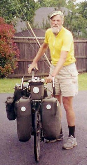 Ken leaving Moni's house, (May 14 2003) on his way to Washington.